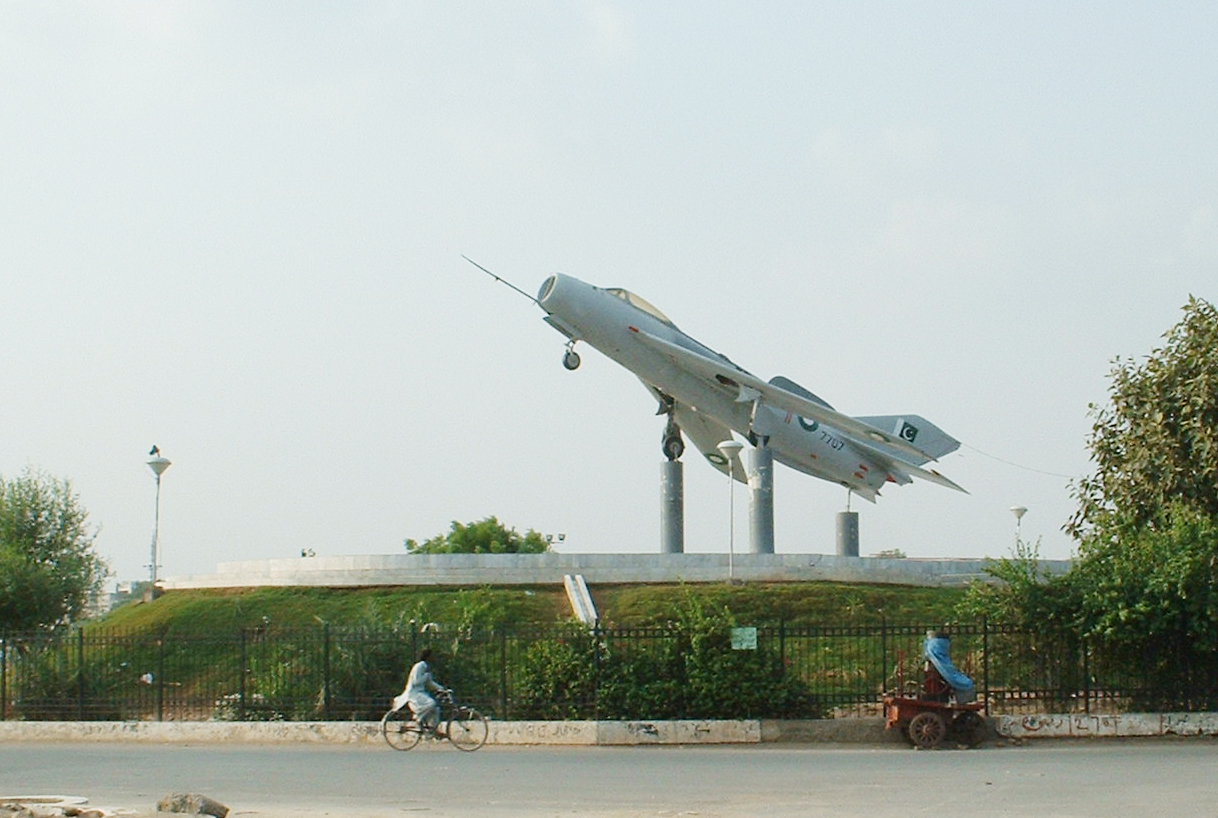 Pahari Ground Park, Faisalabad